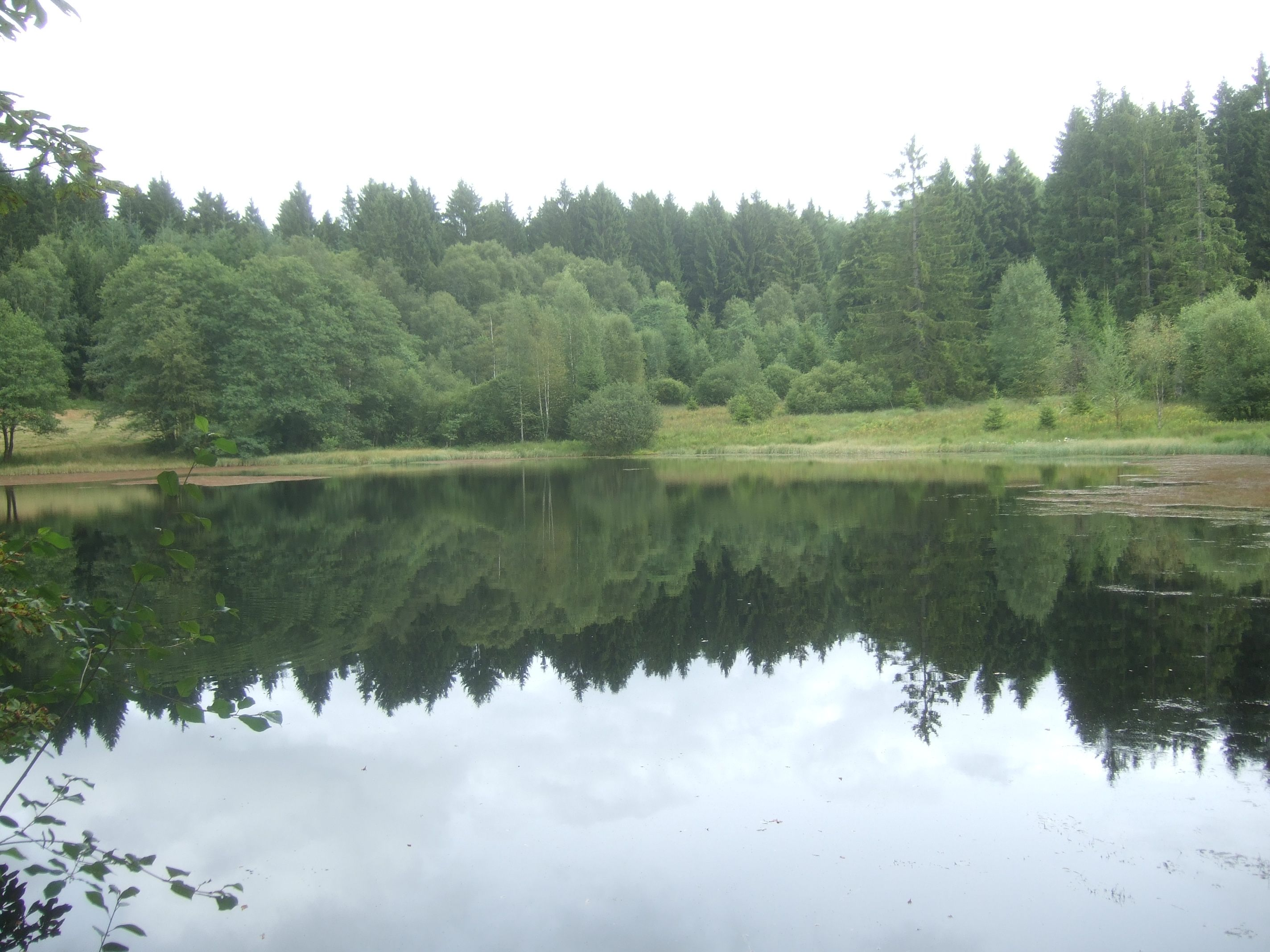 Siebenbornweiher, Mandern